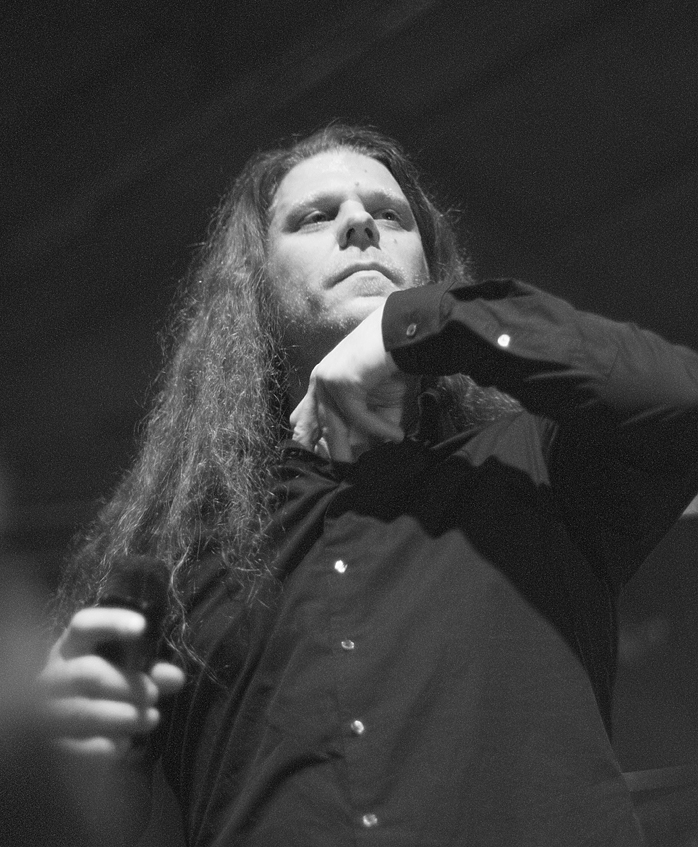 Adrian Hates of Diary of Dreams at a gig in Moscow, Russia, 28.04.2012